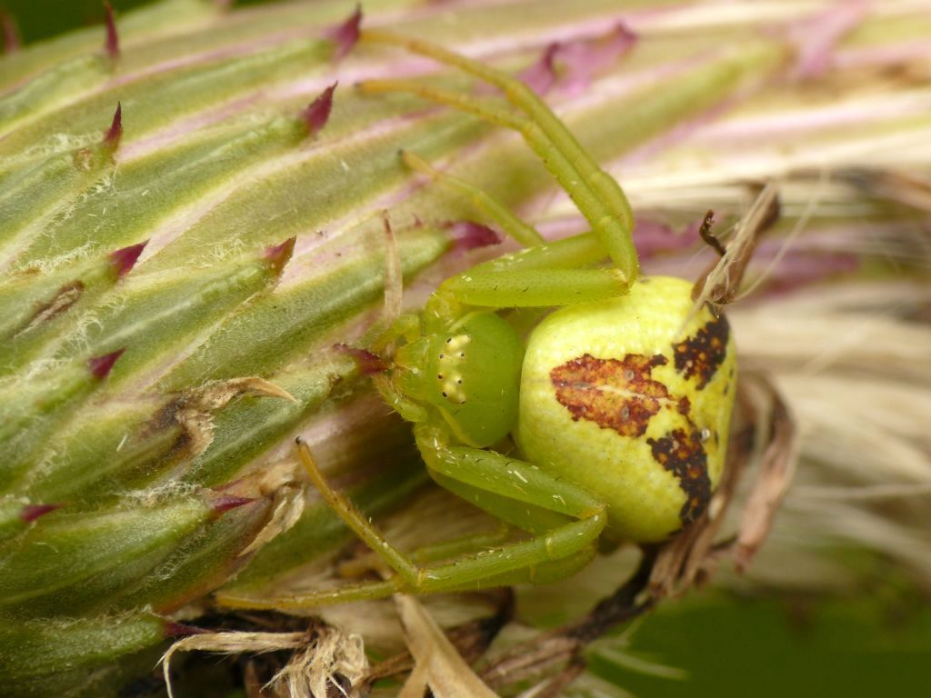 Misumena Vatia